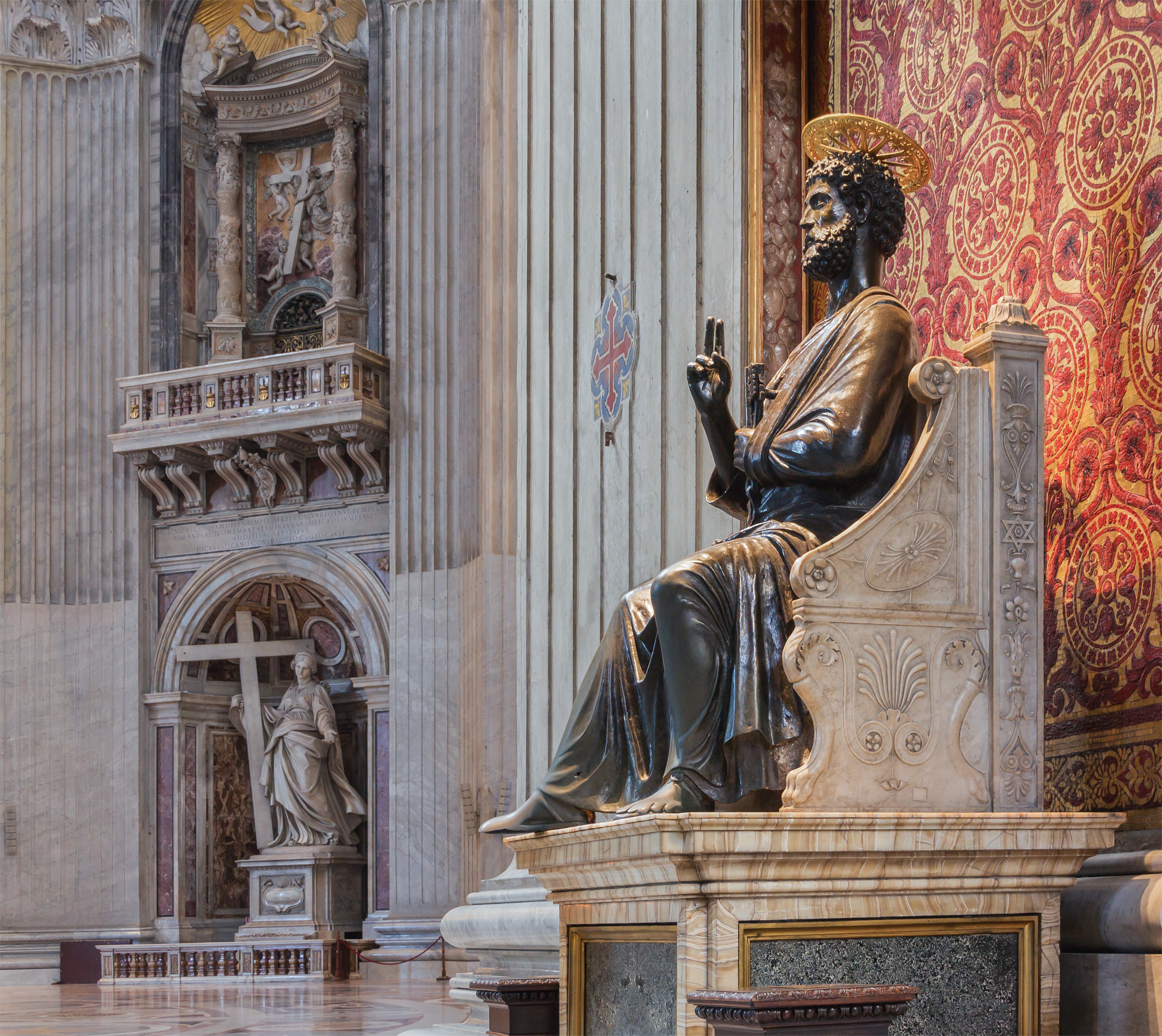 Statue of Saint Peter by Arnolfo di Cambio, in the Saint Peter's Basilica. In background, the statue of Saint Helena of Constantinople. Vatican City.